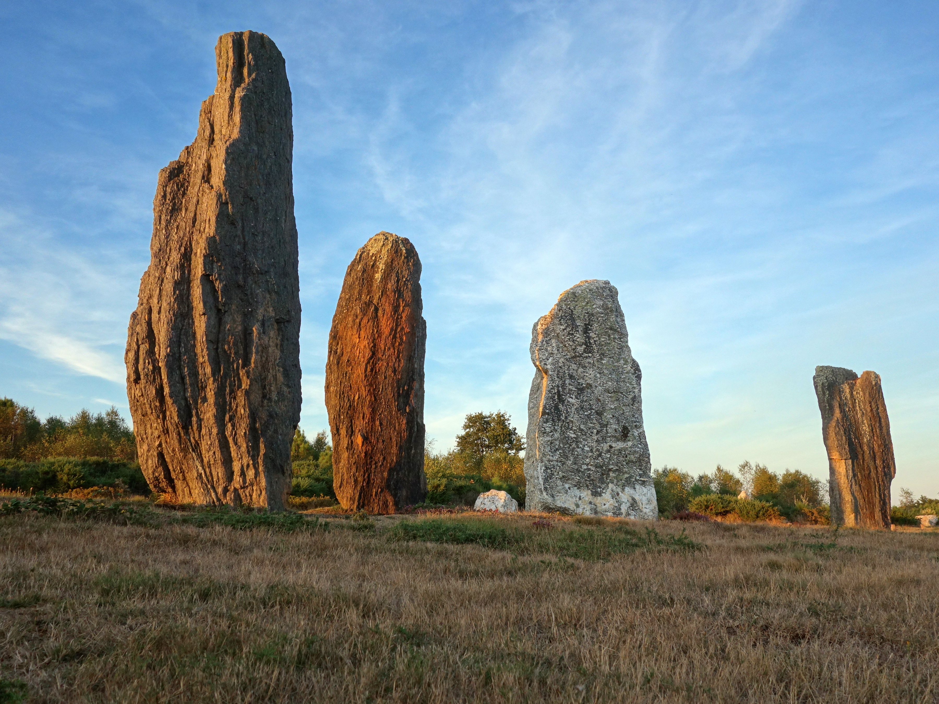 Here are the four main menhirs - at the highest size - in the middle of the row with 13 standing menhirs and the glowing light of the setting sun from the west.